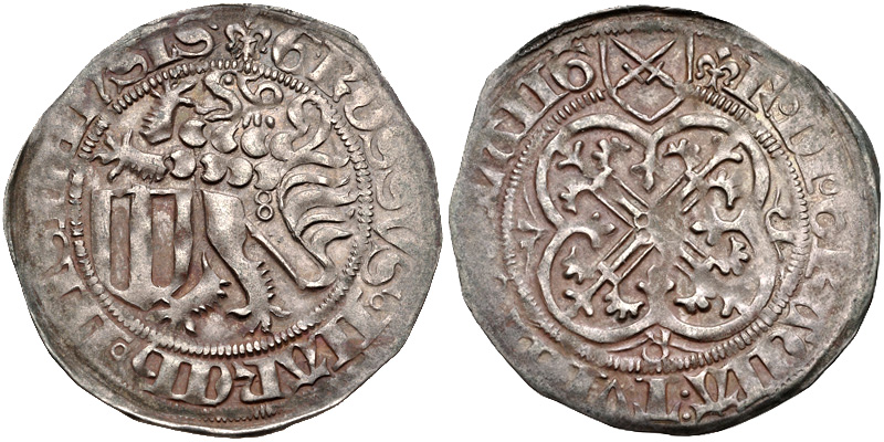 GERMANY, Sachsen-Kurfürstentum. Friedrich II. 1428-1464. AR Schwertgroschen, nicht Schildgroschen (27mm, 1.96 g, 1h). Leipzig mint. Cross fleurée with central quadrilobe in saltire within quadrilobe; shield above / Lion rampant left; arms to left. Cf. Krug 887/27. EF, toned, areas of weak strike at periphery.